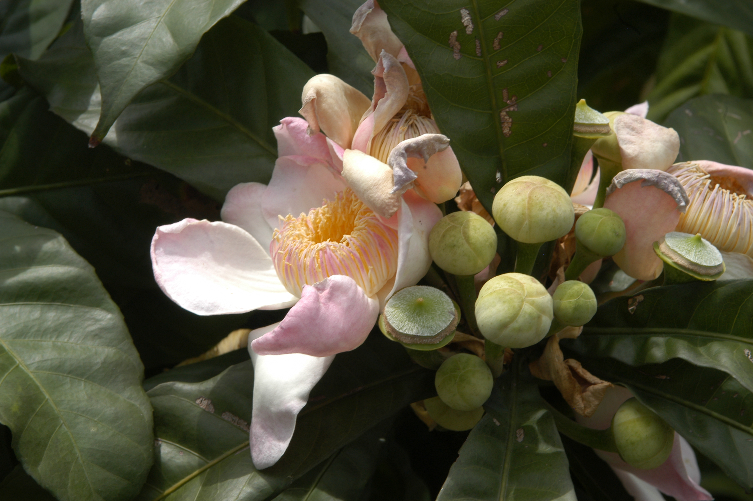 Gustavia superba